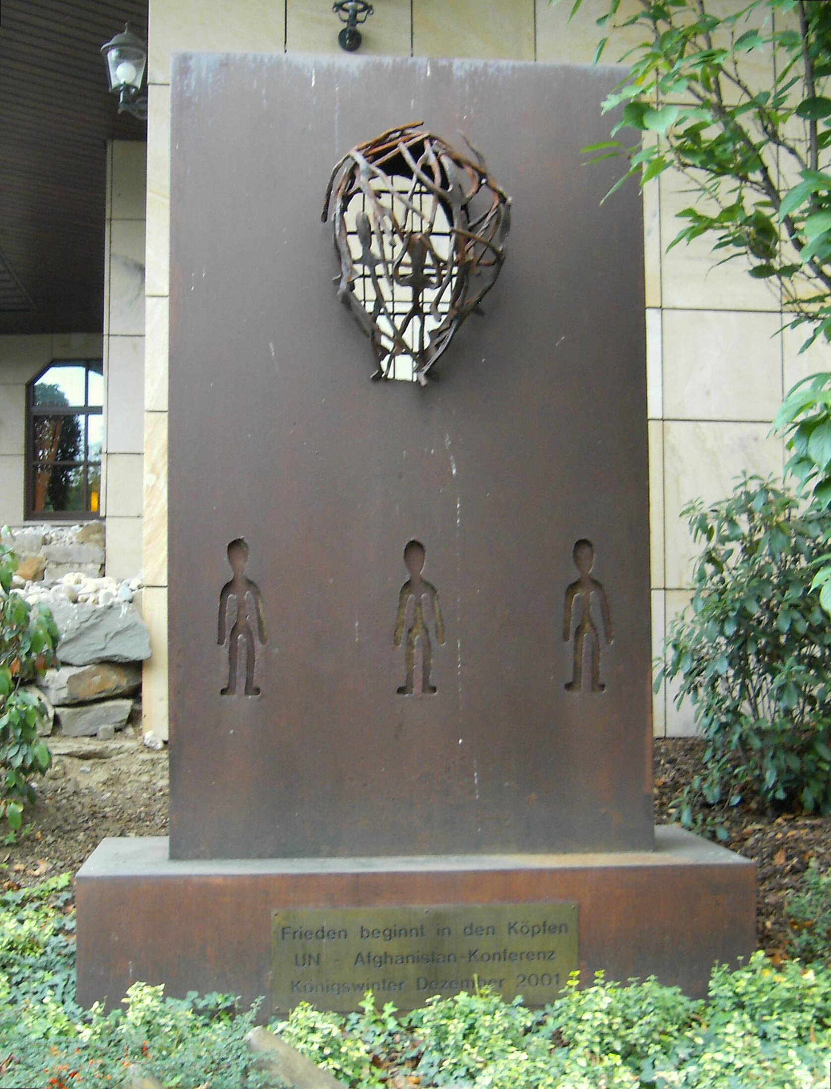 Memorial of the Afghanistan conference, December 2001. Location: Jakob-Kaiser-Straße, in front of the Maritim hotel in Königswinter